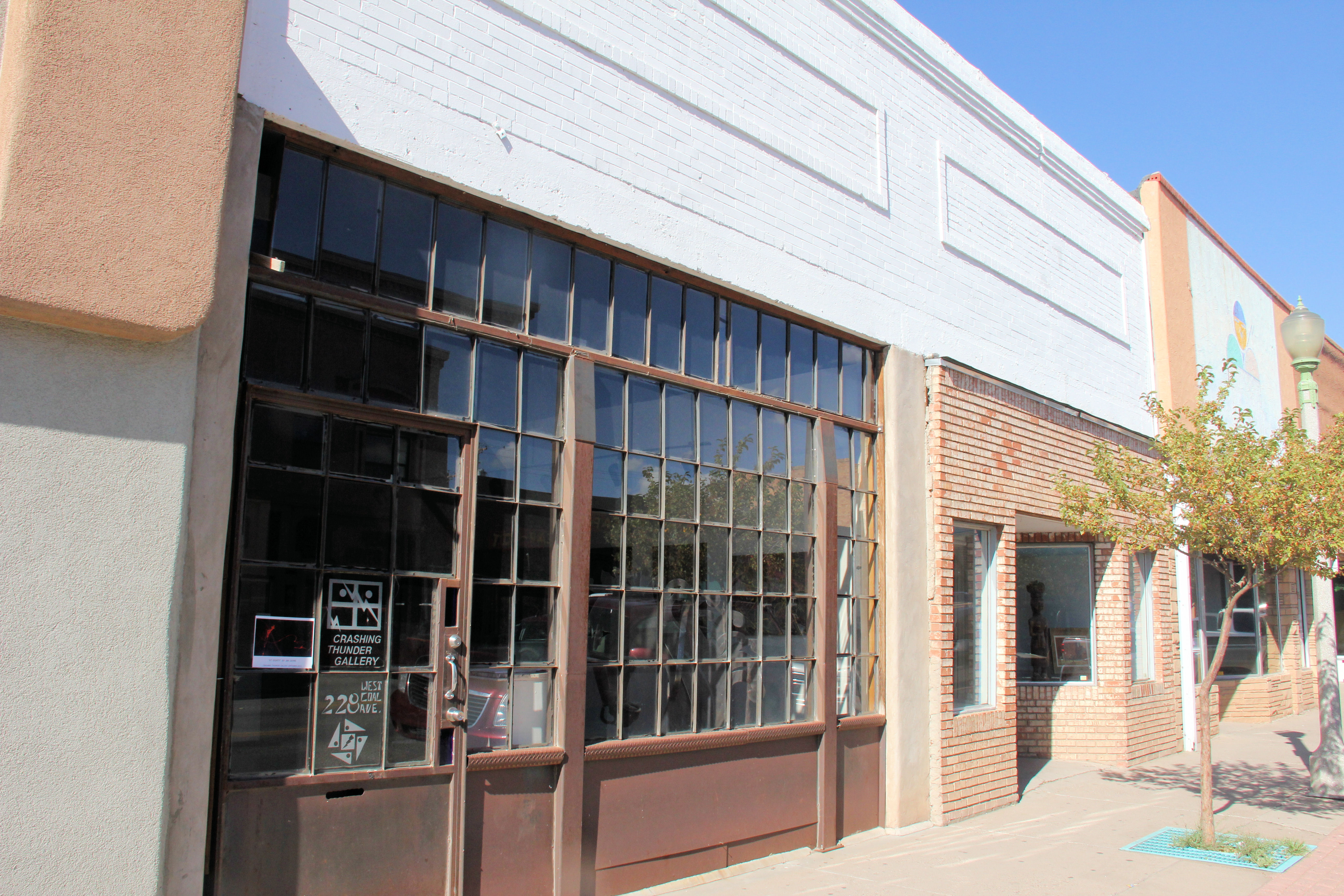 Chief Theater